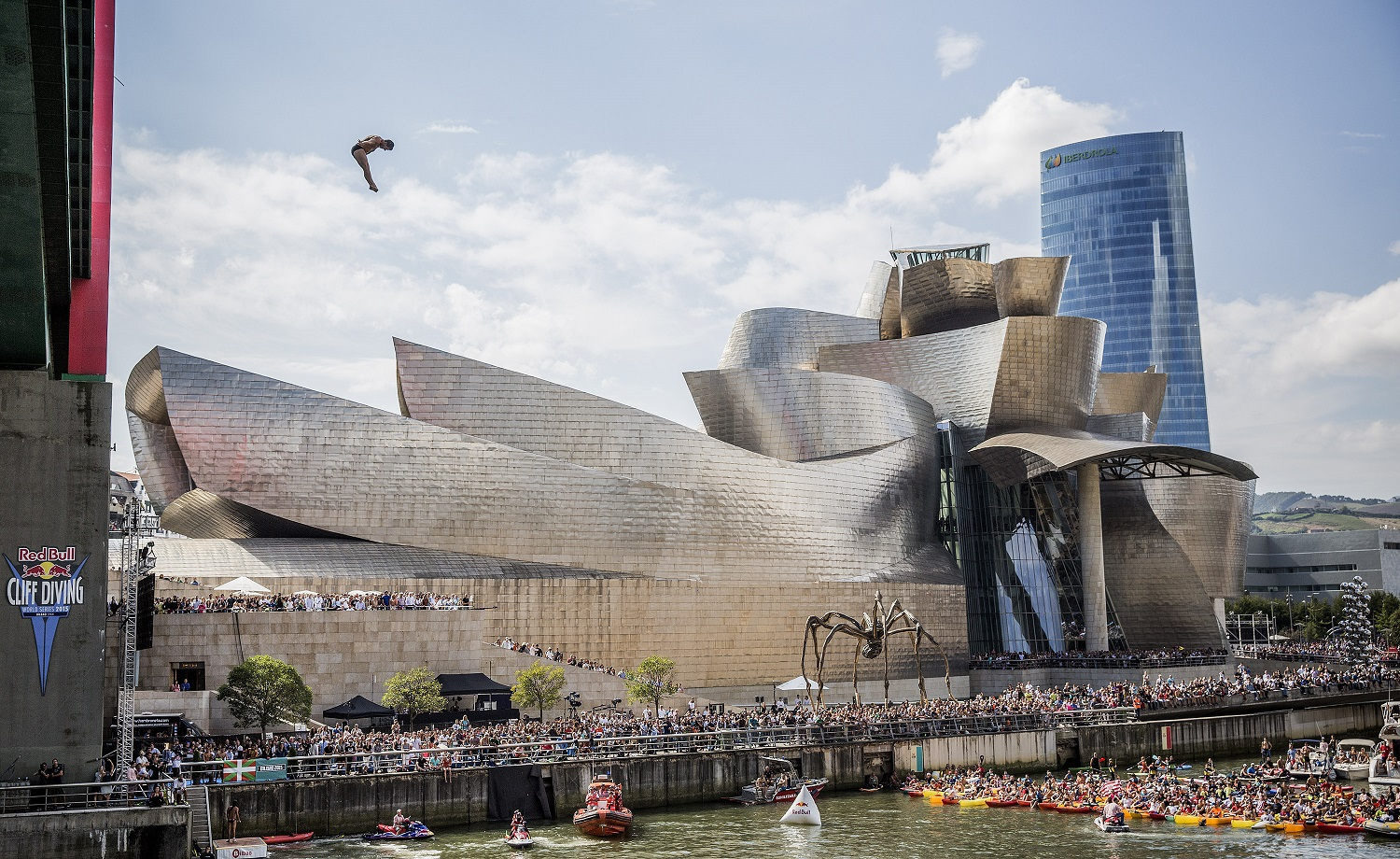 Steven LoBue of the USA dives from the 27.5 metre platform on La Salve bridge during the eighth and final stop of the Red Bull Cliff Diving World Series, Bilbao, Spain on September 26th 2015. Author: RominaAmato_RedBullContentPool